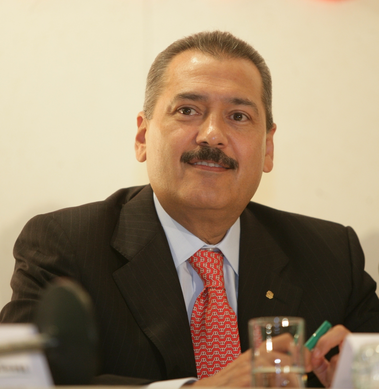 Manlio Fabio Beltrones Rivera